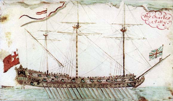 The Charles Galley